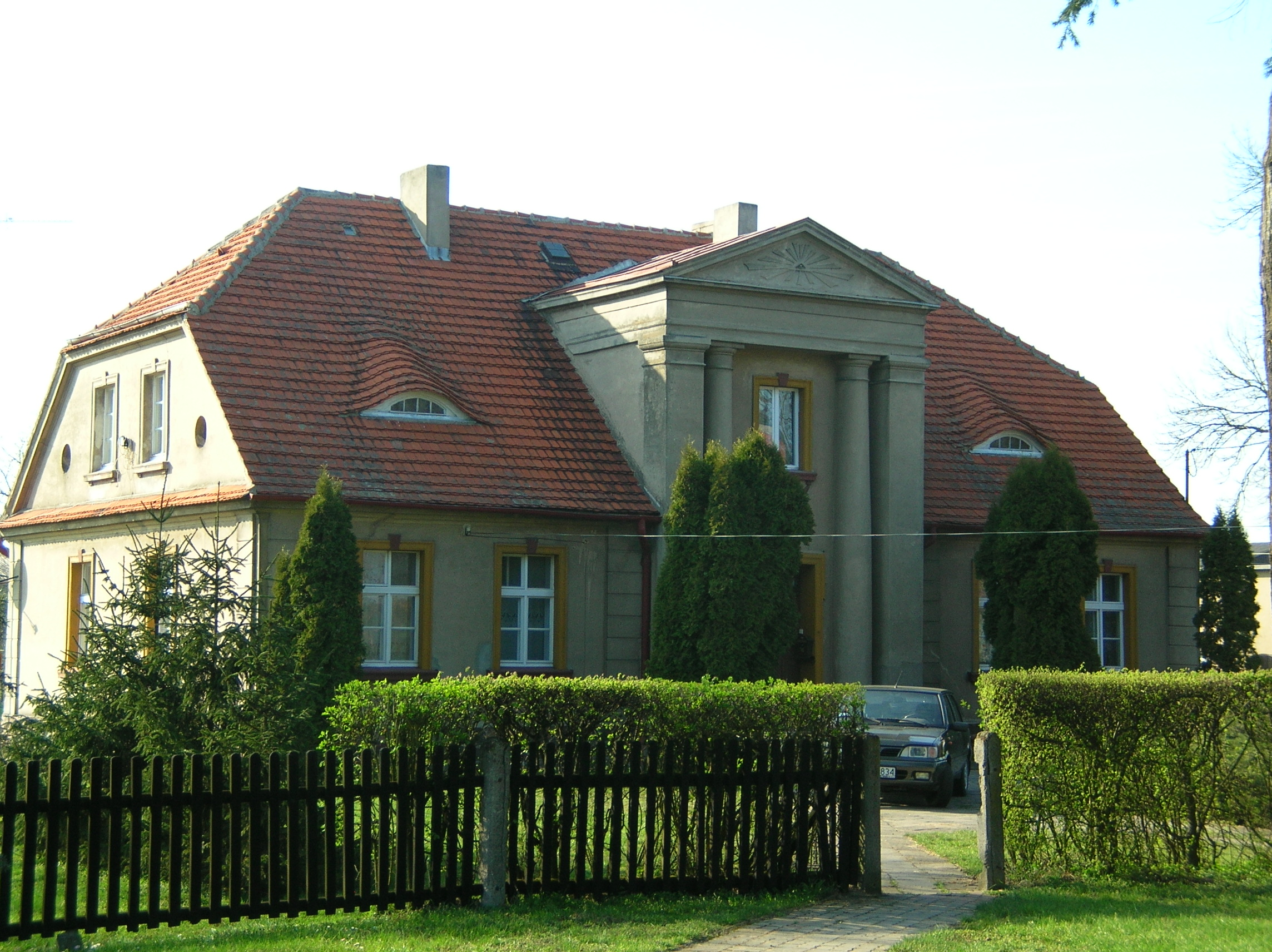 Rectory in Ryszewko